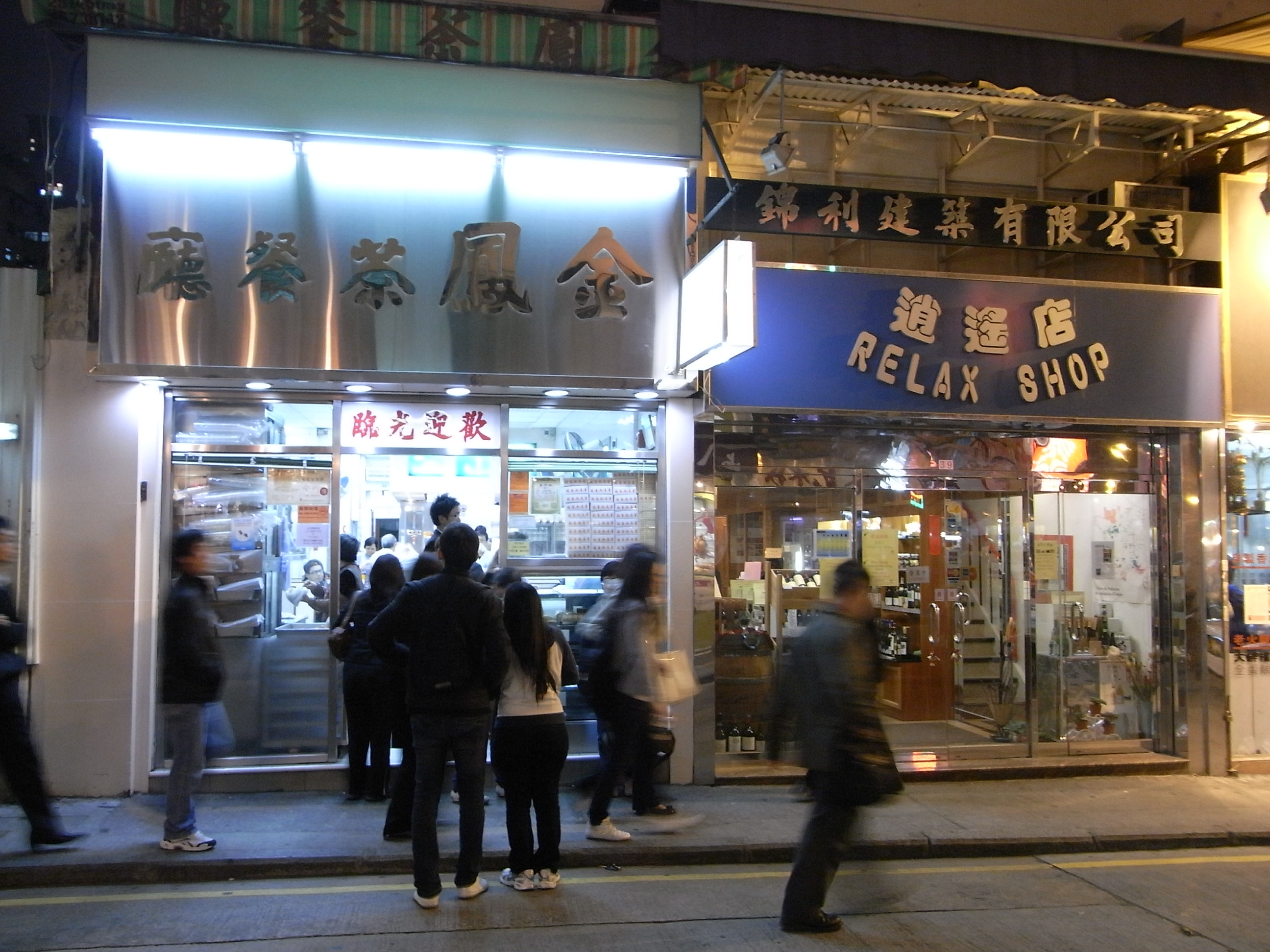 灣仔春園街